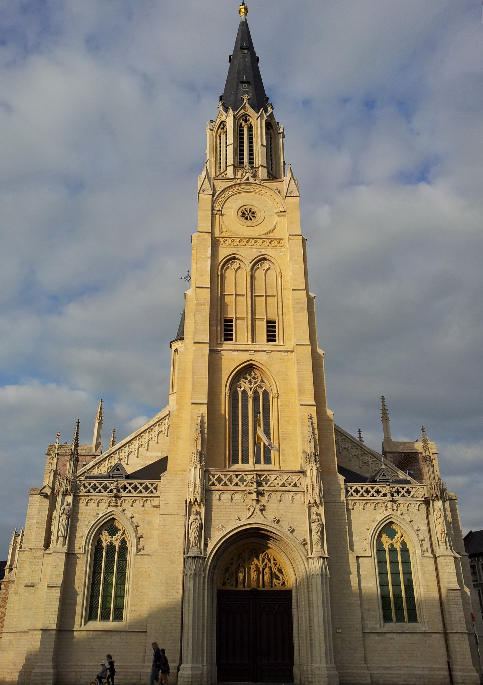 Sint-Truiden, Belgium. View from the West of the church of Our Lady of the Assumption (Onze-Lieve-Vrouw-Tenhemelopnemingkerk).